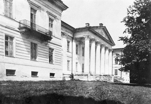 The Khoten Palace (ca. 1800, destroyed in 1918)